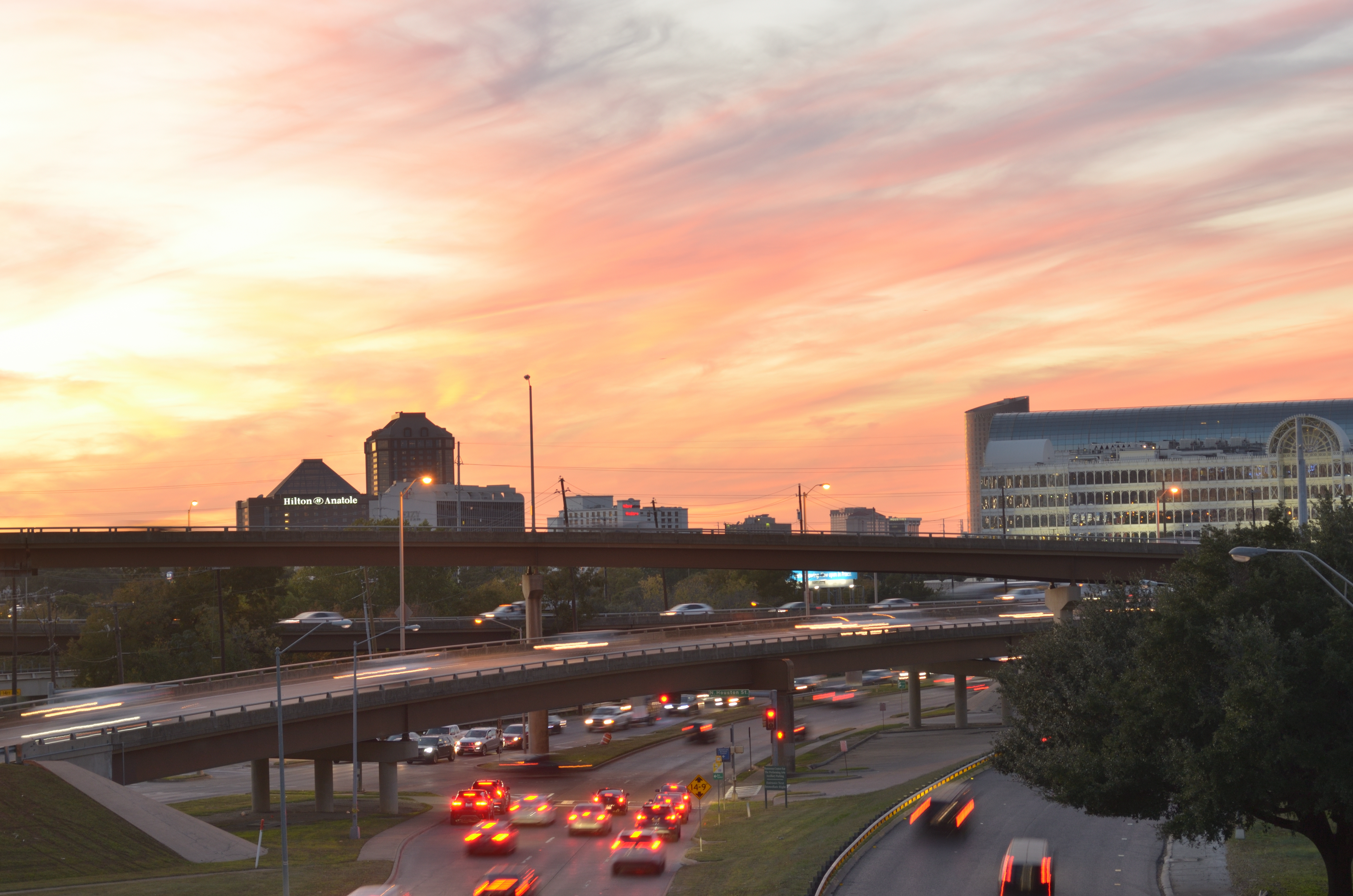 Katy Trail (pedestrian bridge at Harry Hines Boulevard) during sunset